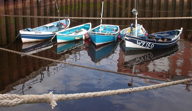 Small fishing boats in Whitby harbour Shows the code for fishing boats registered in Whitby: "WY"